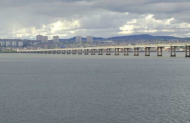 Tay Road Bridge From the western end of Tay Street, Newport, looking across to Dundee and the hills.